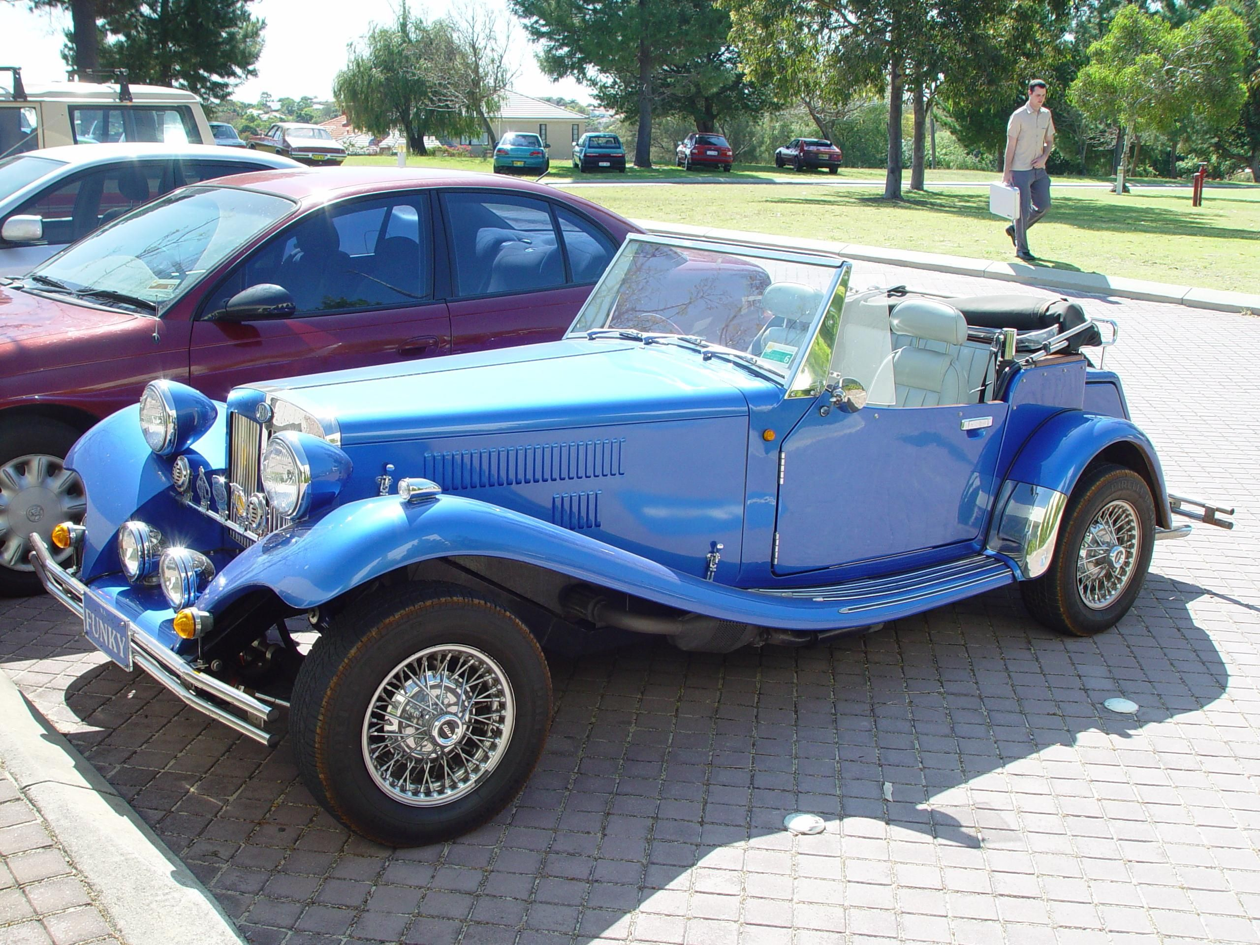 Image title: Blue JBA Falcon retro-look kit car Image from Public domain images website